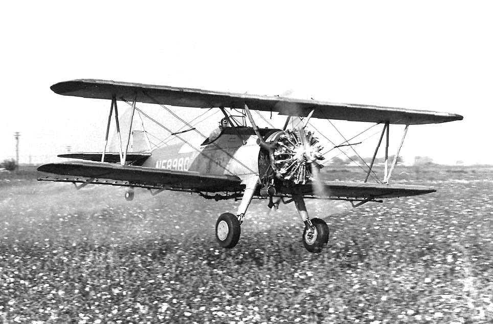 Spraying cotton in 1965.